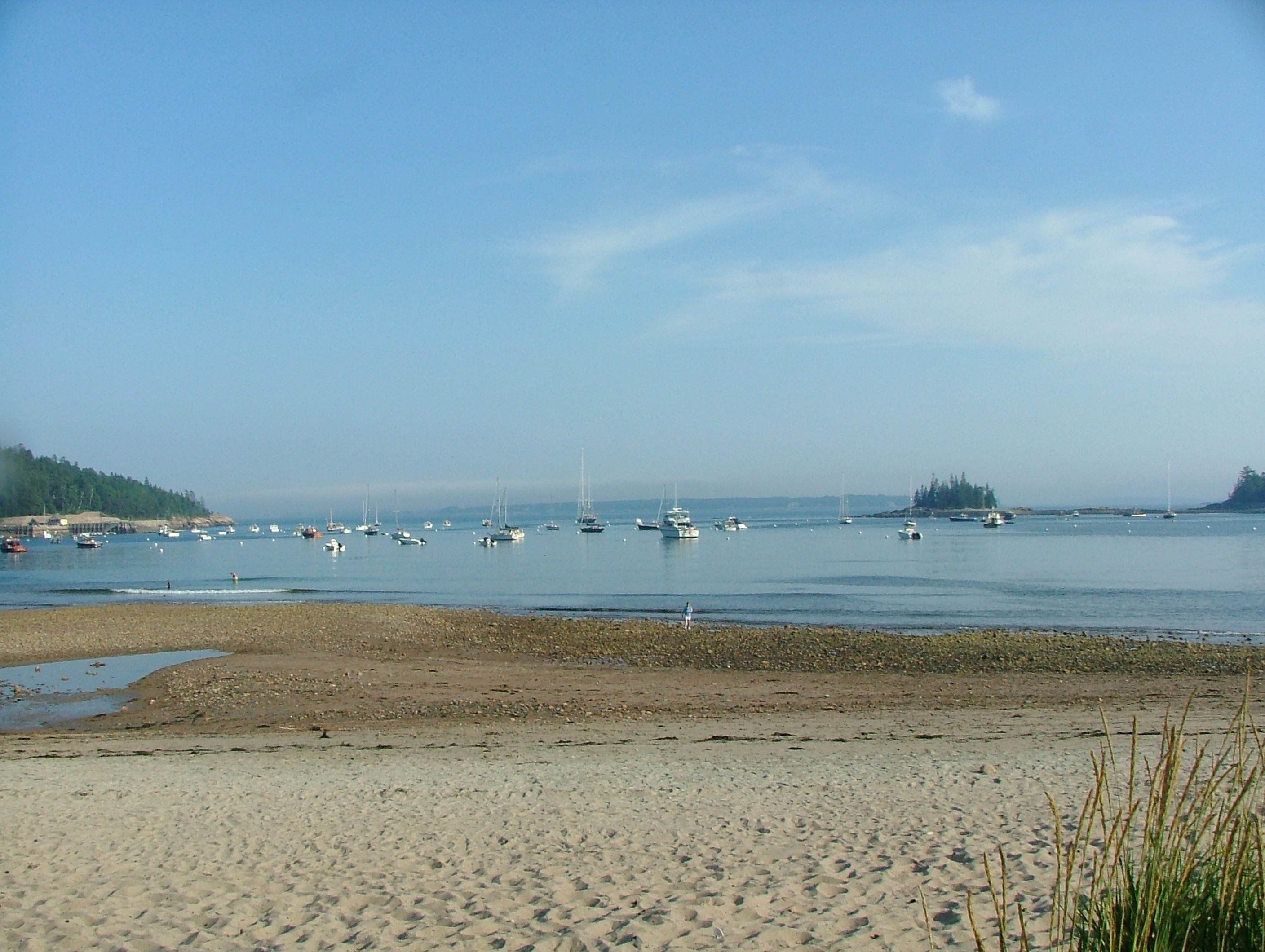 Seal Harbor beach and bay. Mount Desert Island, Maine